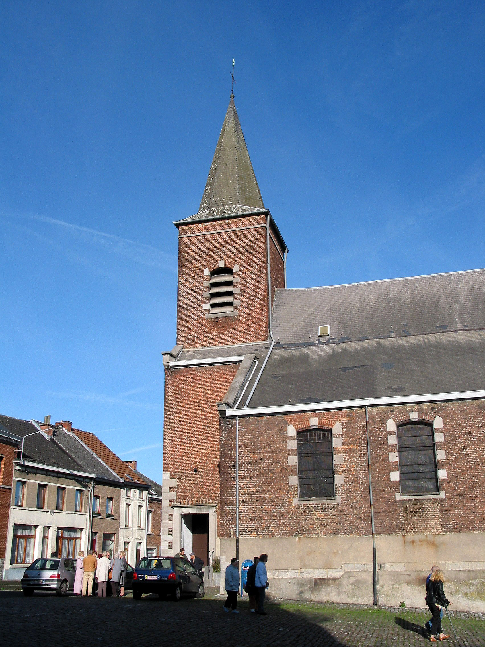 Chapelle-lez-Herlaimont (Belgium),the St. Germain church.